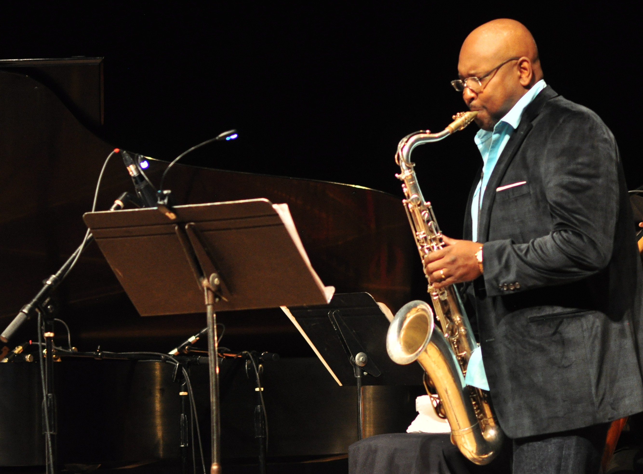 Jazz saxophonist Abraham Burton, member of Lucian Ban's group Elevation, performing Ban's Songs from Afar, Plestcheeff Auditorium, Seattle Art Museum, Seattle, Washington, U.S.